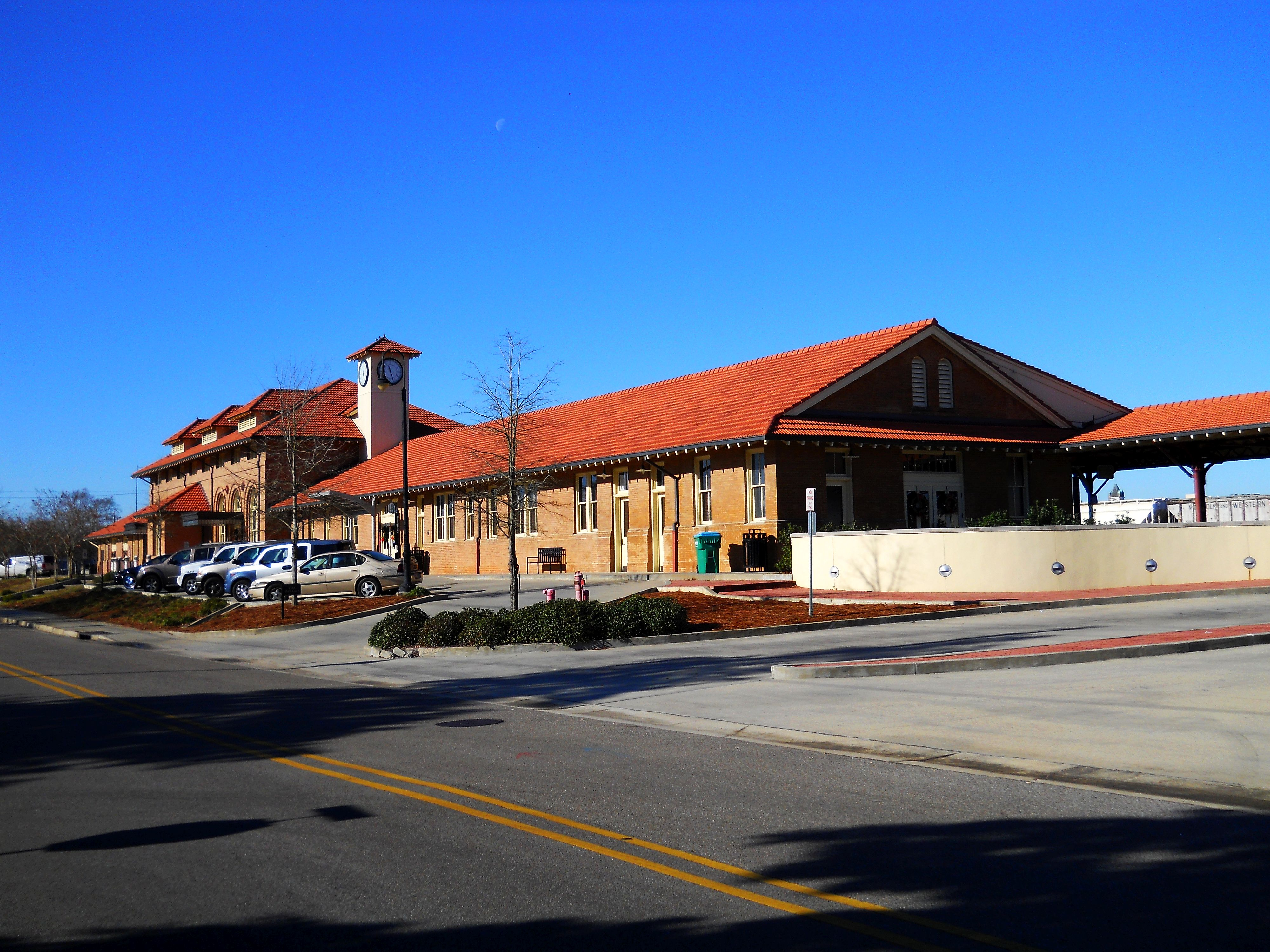 Amtrak Station, Hattiesburg, Forrest County, Mississippi, USA. The train depot, built in 1910, is a contributing resource within the Hub City Historic District (Boundary Increase) on the National Register of Historic Places.